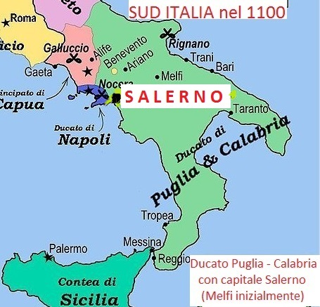 Map of Norman "Ducato di Puglia & Calabria" (in light green) with capital SALERNO highlighted (in red). Original map from Commons. I have added data with my software to "File:Sud Italia nel 1112.jpg"